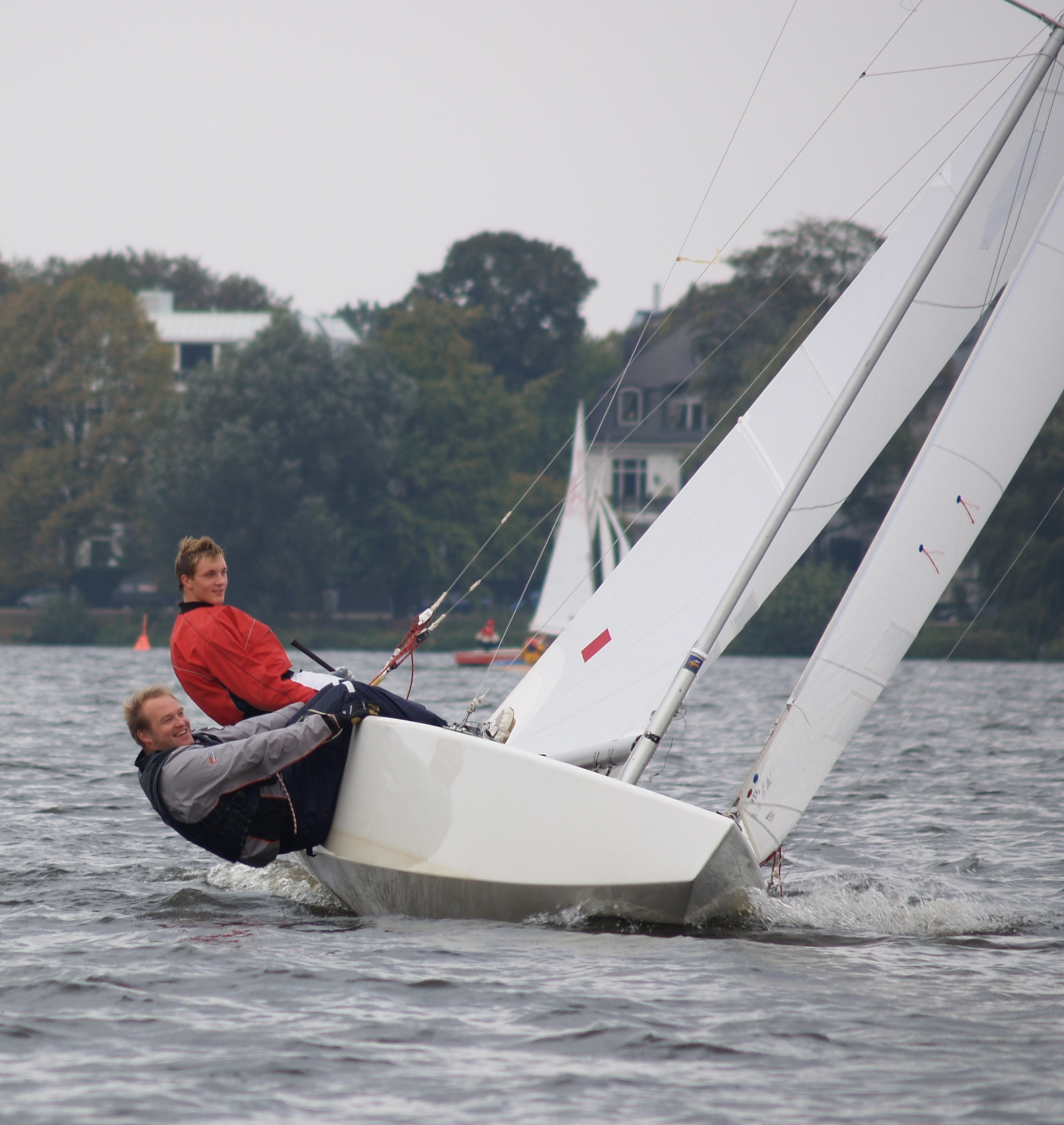 A Star, a type of keelboat.